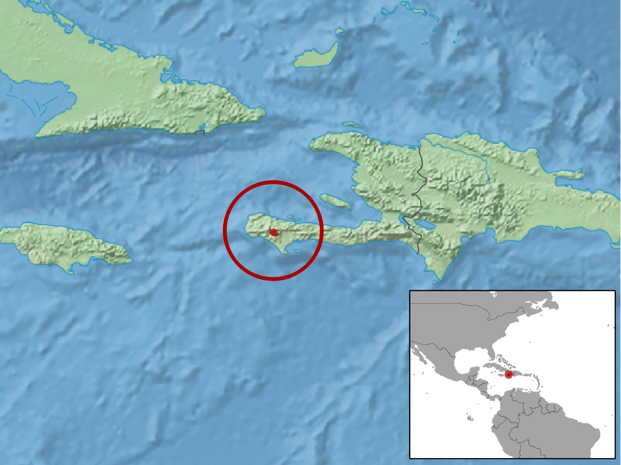 geographic distribution of Eleutherodactylus thorectes